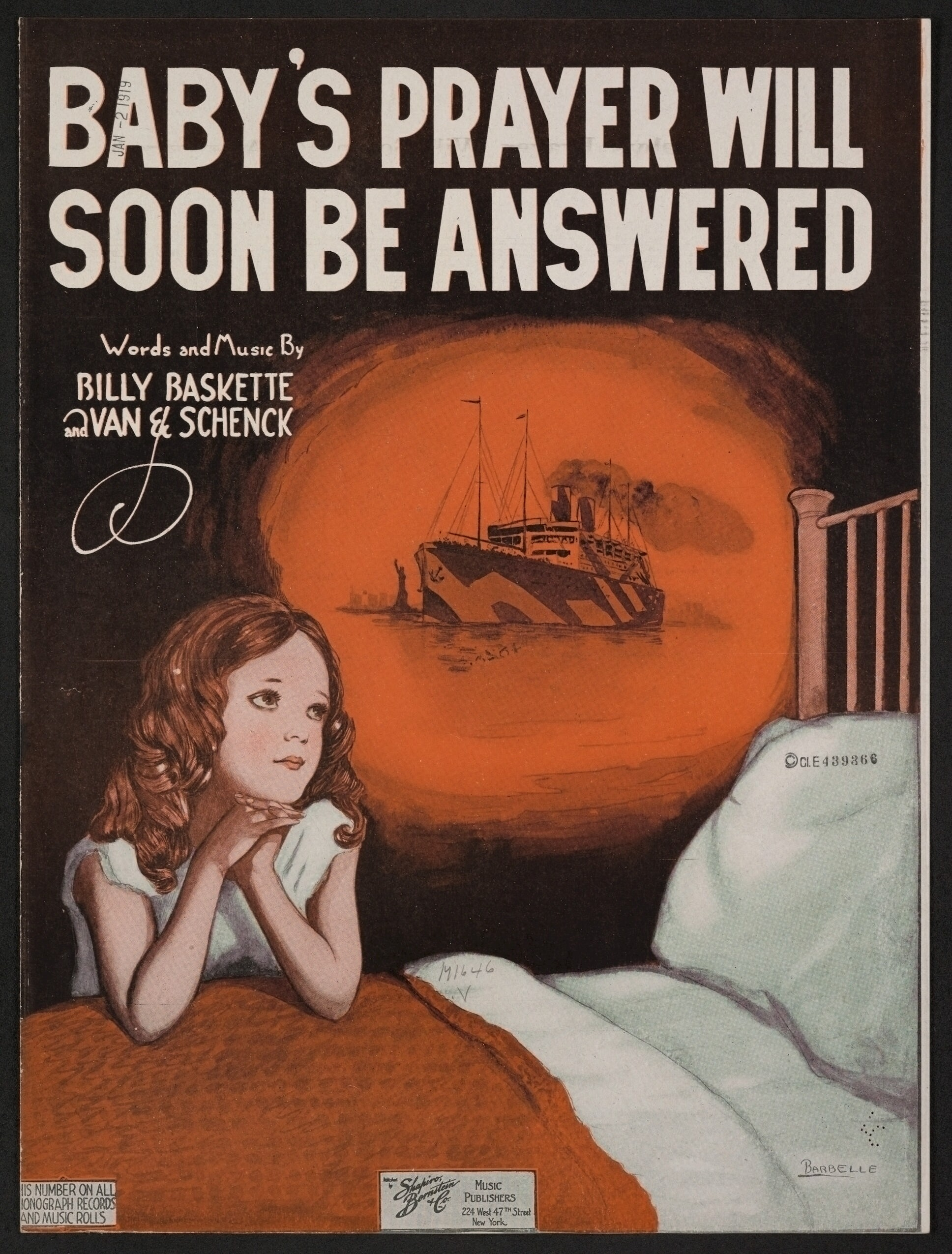 Sheet music cover to the 1918 song "Baby's Prayer Will Soon Be Answered." Words and music by Billy Baskette and Van & Schenck